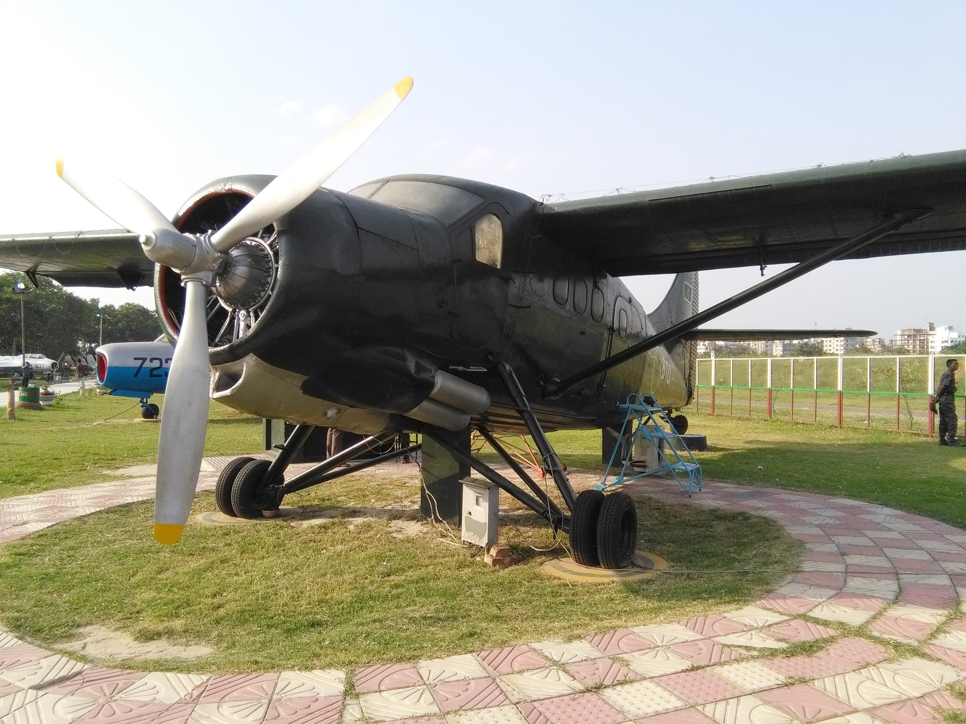 Airtake Canadian DHE at BAF Museum